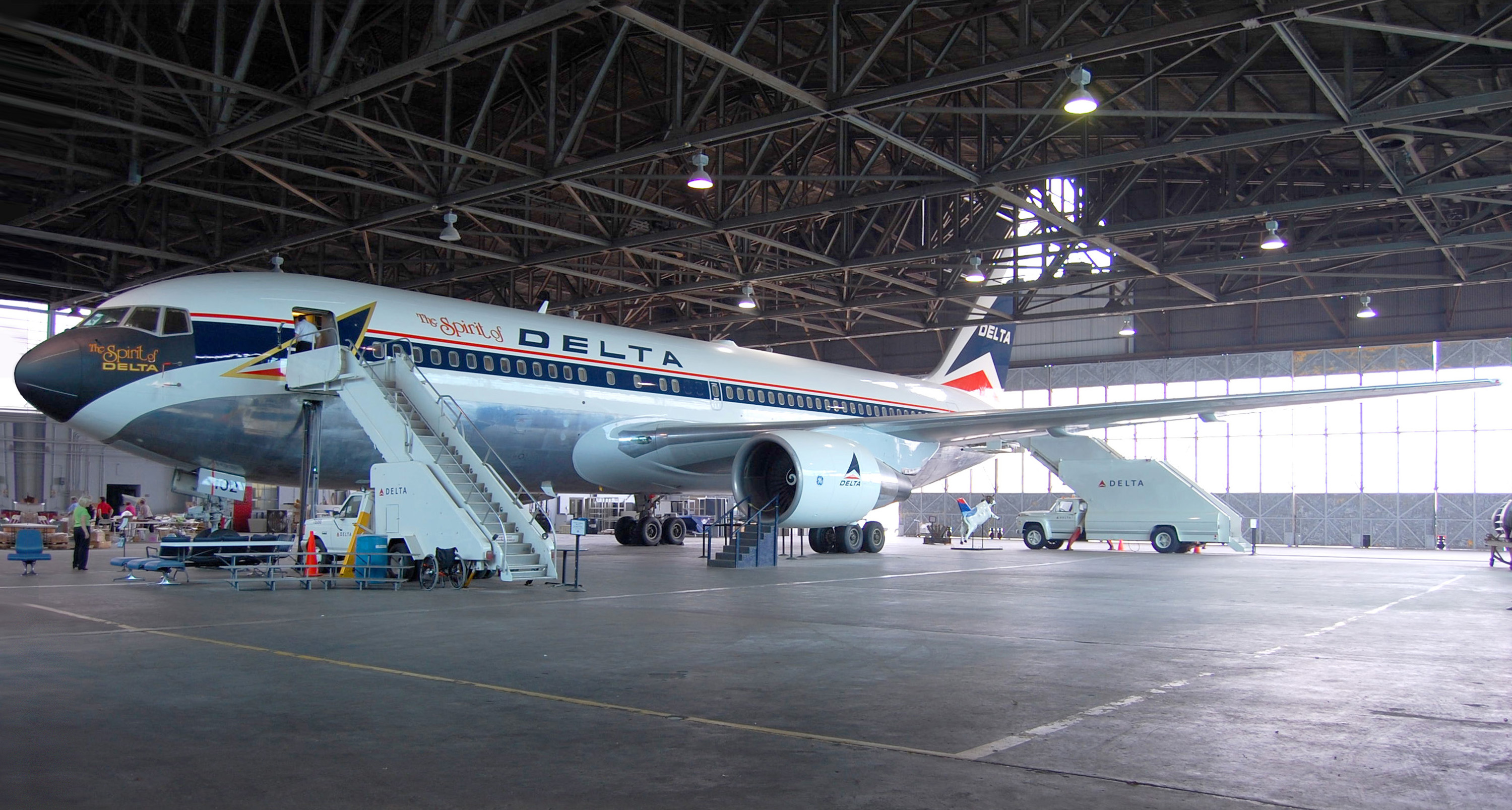 The Spirit of Delta